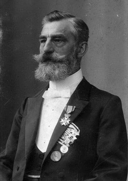 Doctor Lambert van Kleef (1846-1928), a famous Dutch surgeon, posing in evening dress with his orders, decorations and rewards.